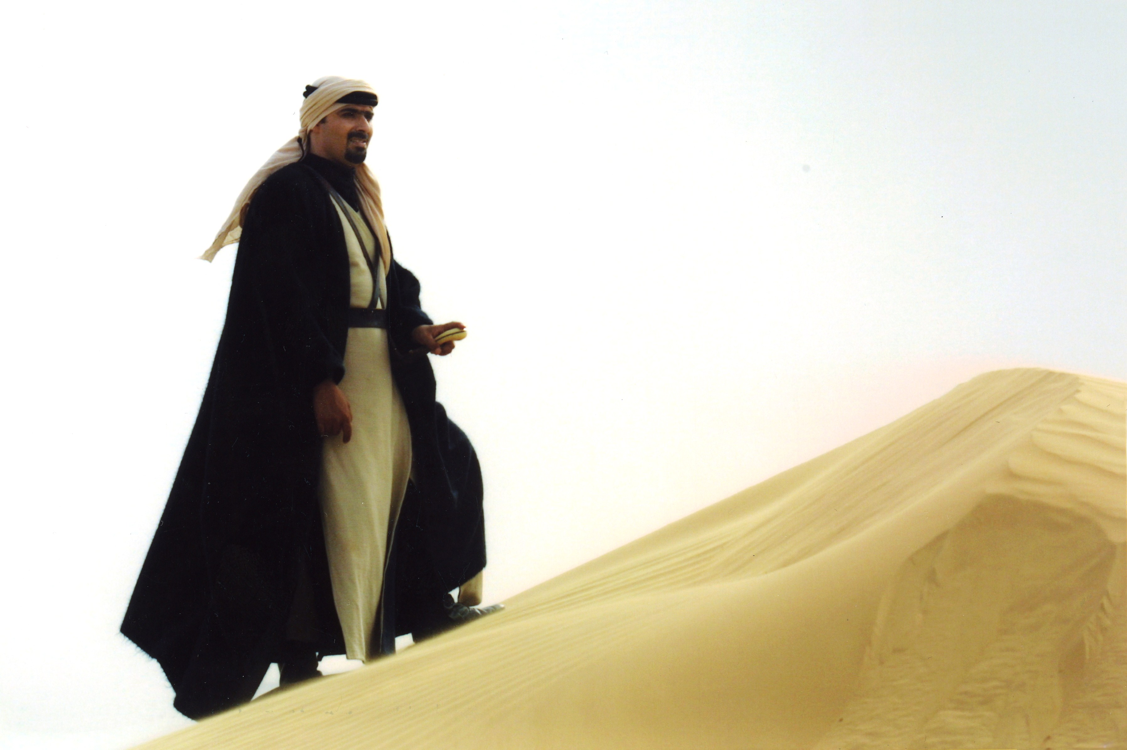 Ammar Shalak - Lebanese Actor in the Drama series - The Last Cavalier